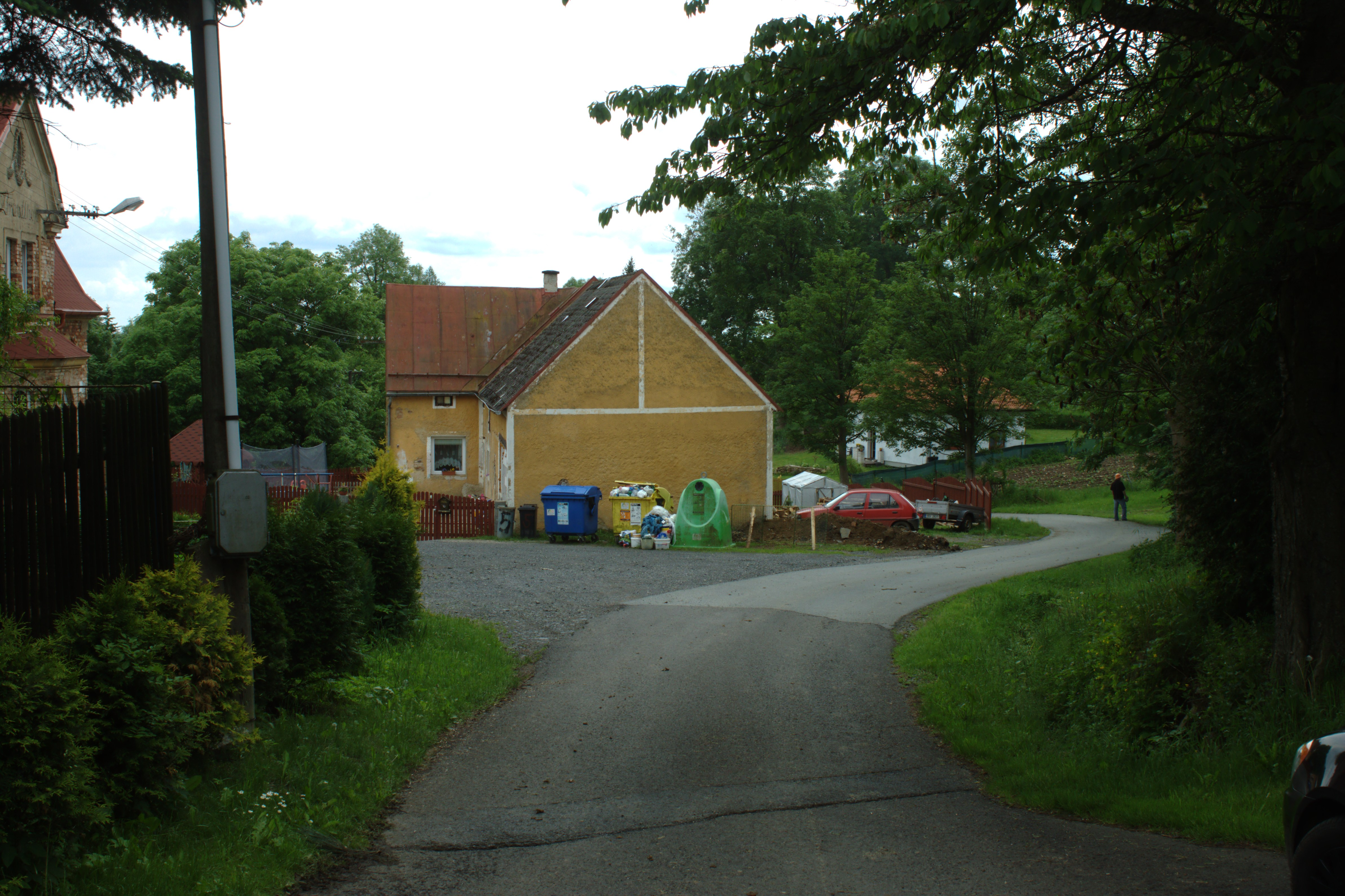 A turn in the village of Beroun near Teplá, Karlovy Vary Region, CZ